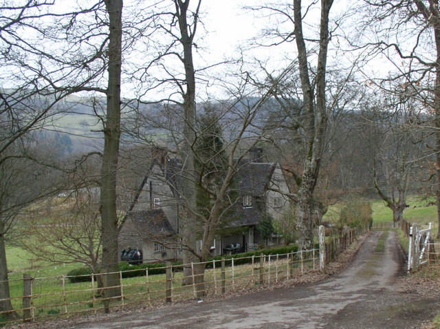 Lodge, Crogen.